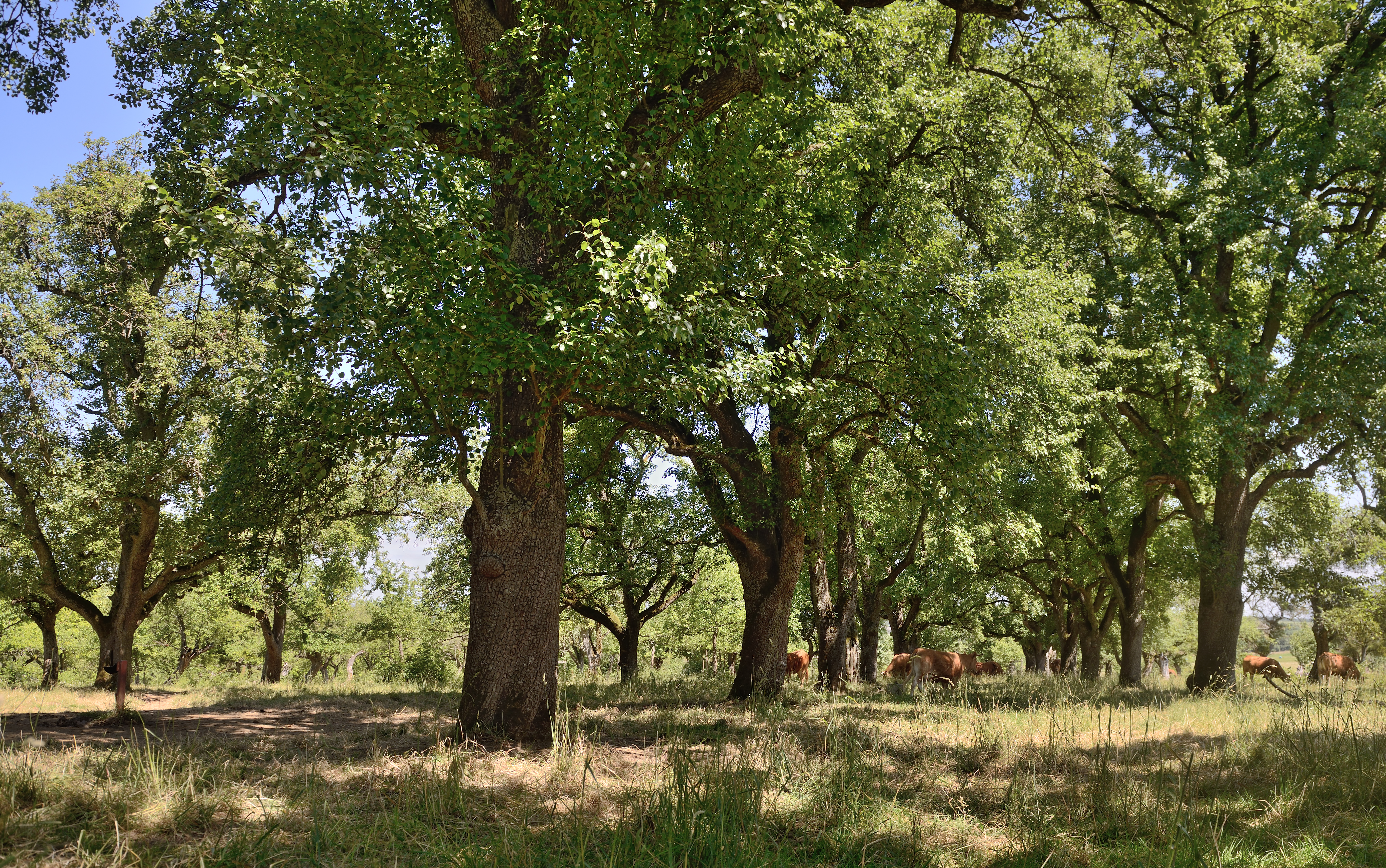 Orchard Altenhoven at Bettembourg, Luxembourg.